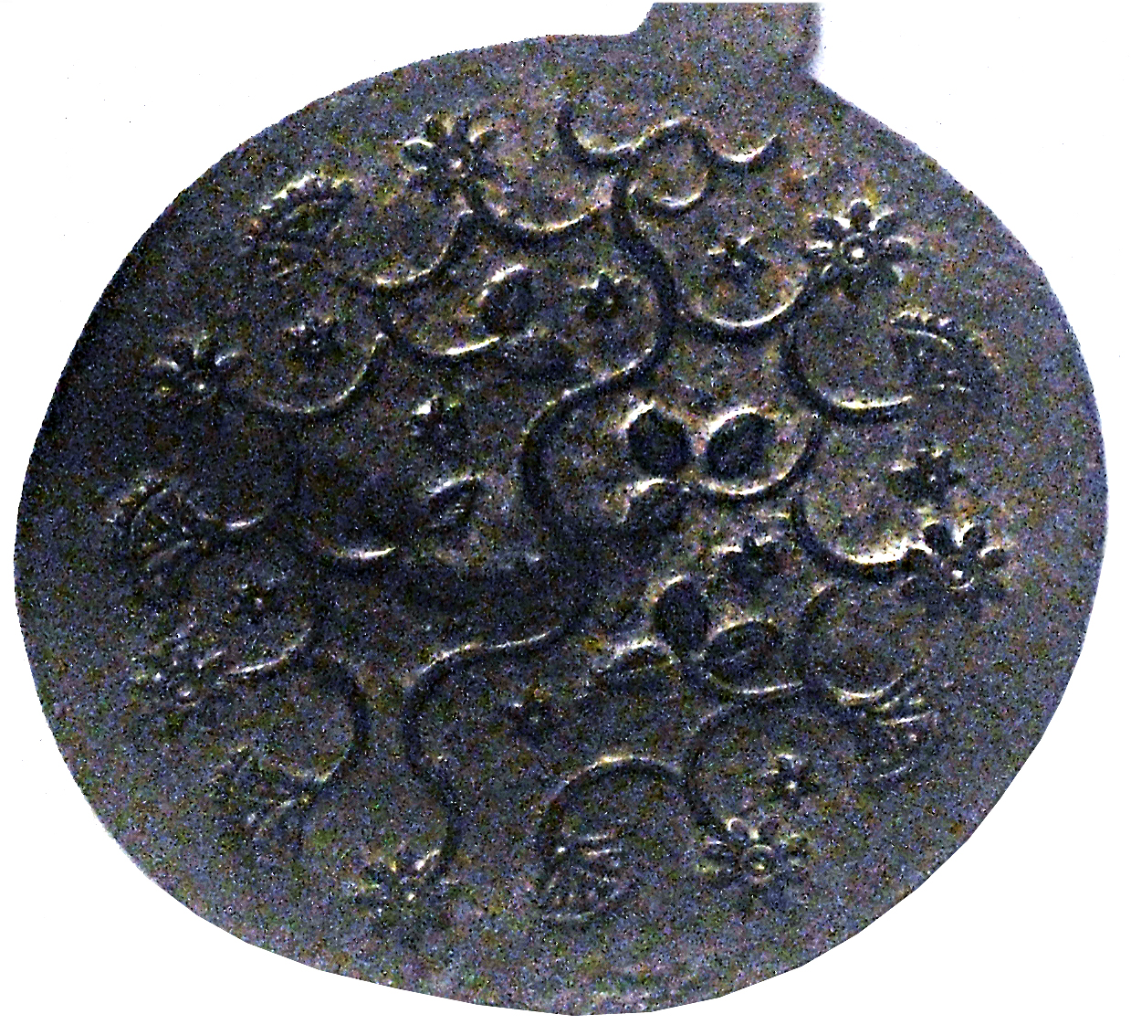 Part of an iron for cooking "oublie", Gourmet Museum and Library, Hermalle-sous-Huy, Belgium